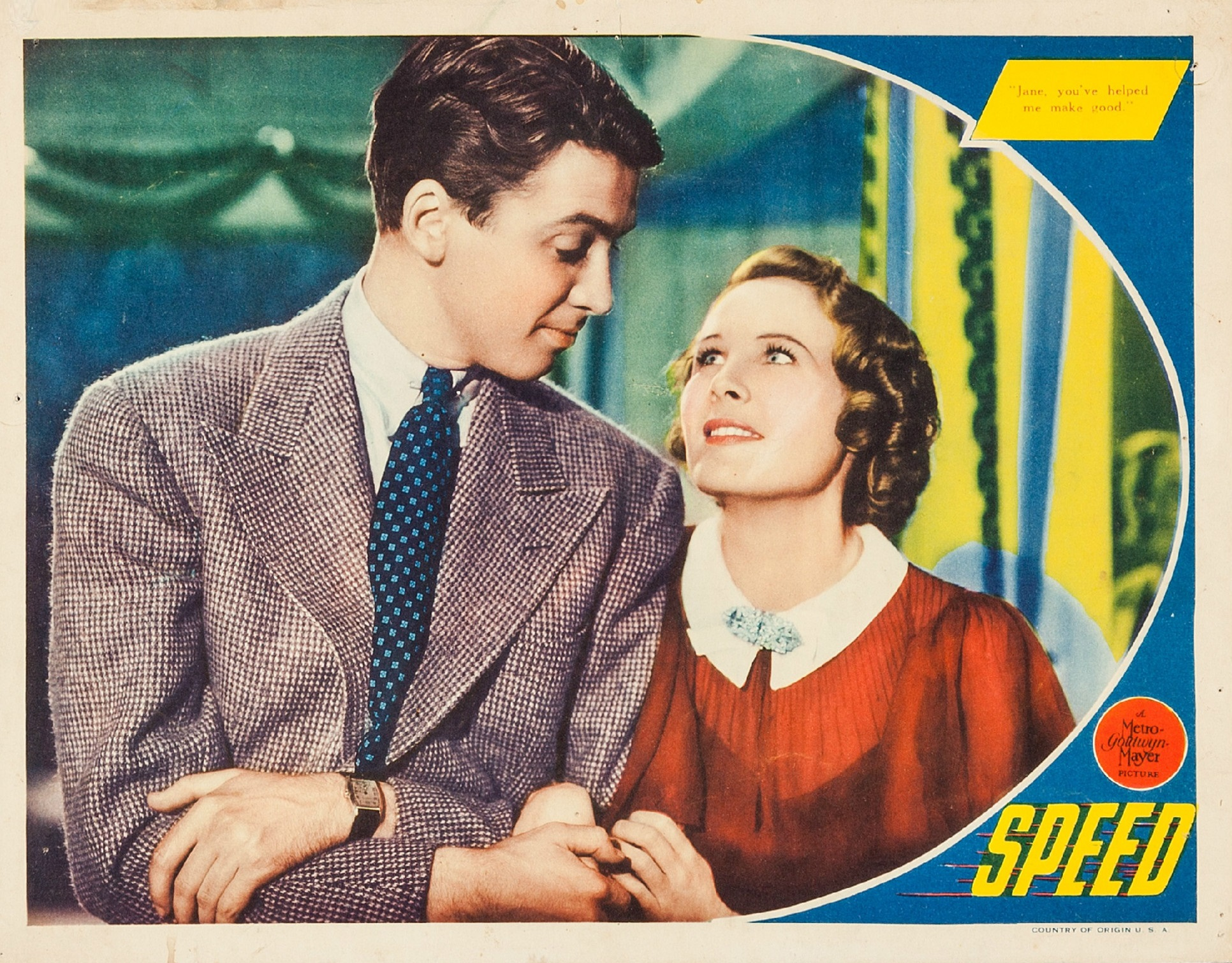 Lobby card for the American action film Speed (1936).